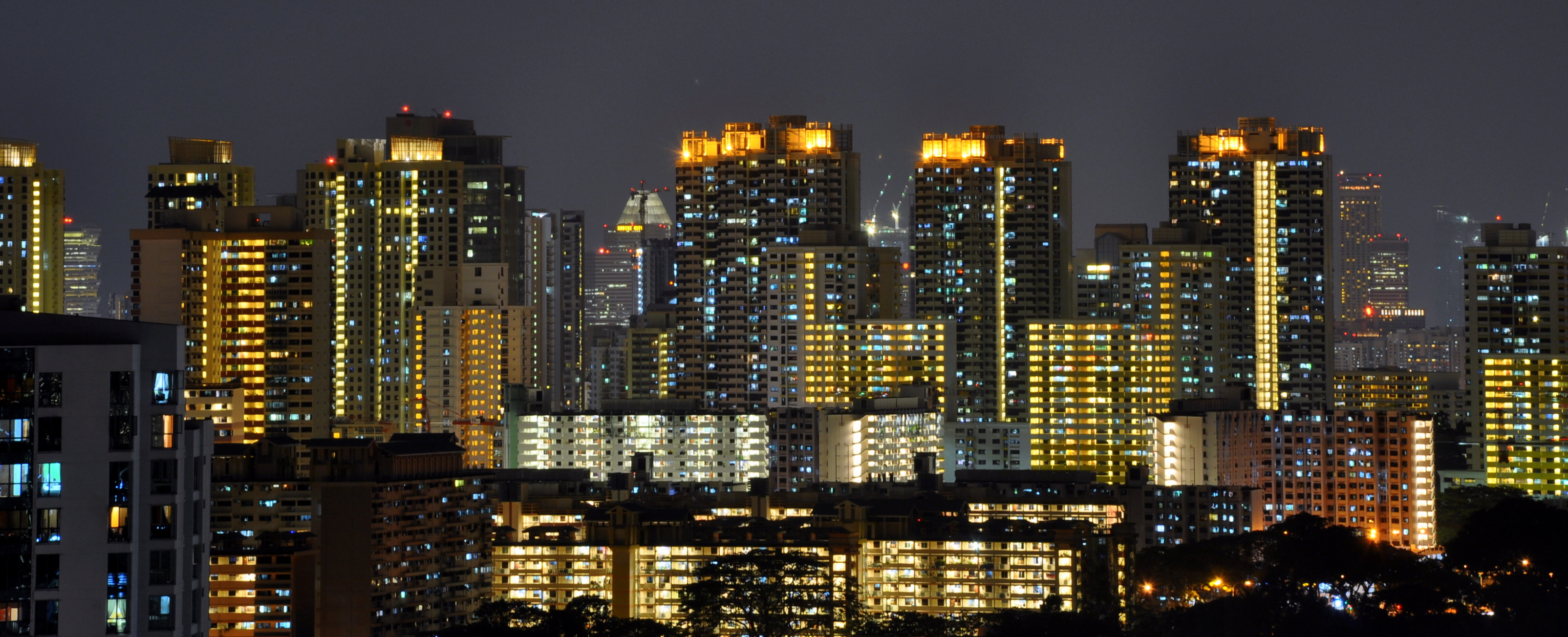 Night view of Bishan in Singapore.